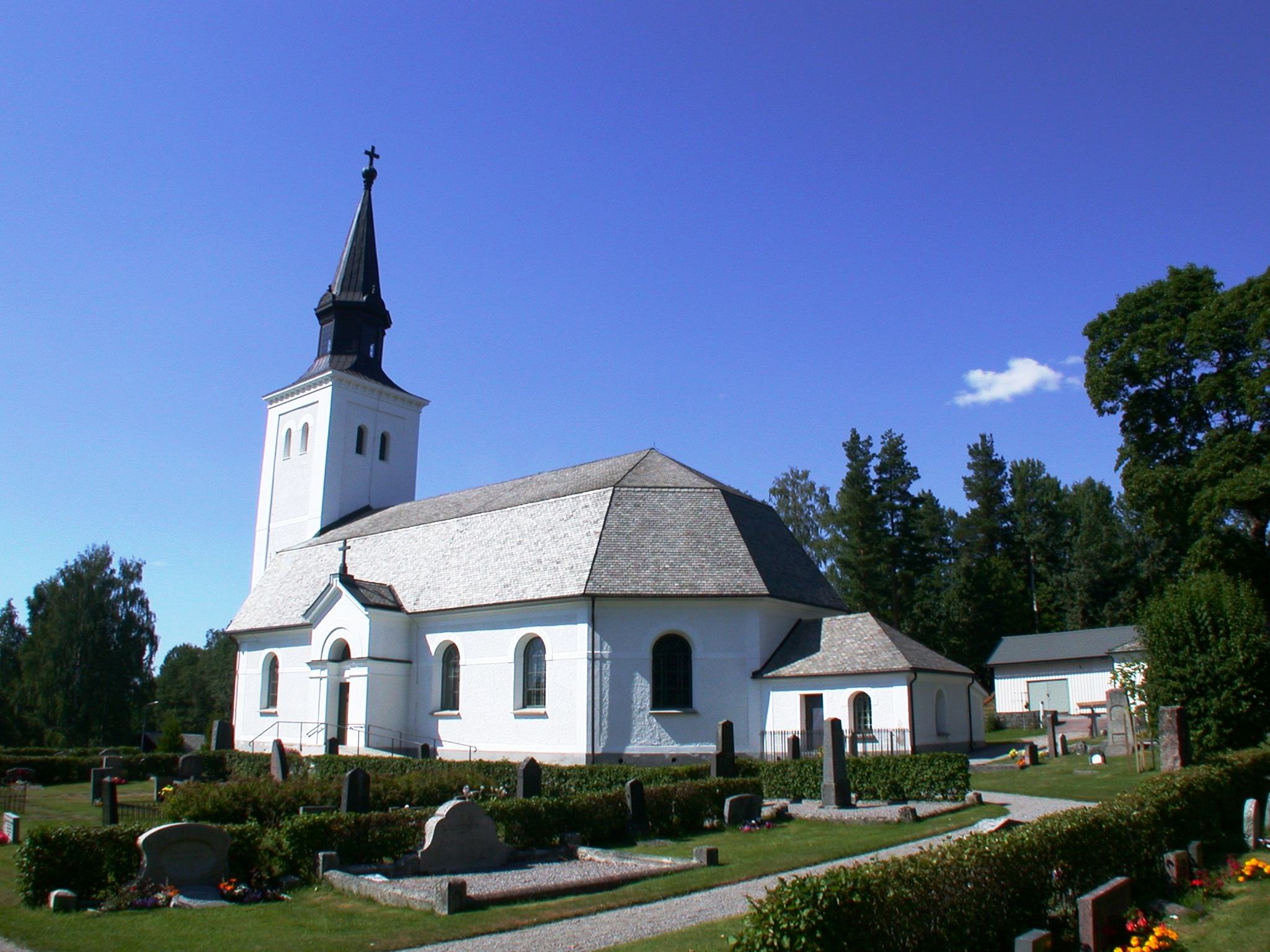 The church in Glava, Sweden